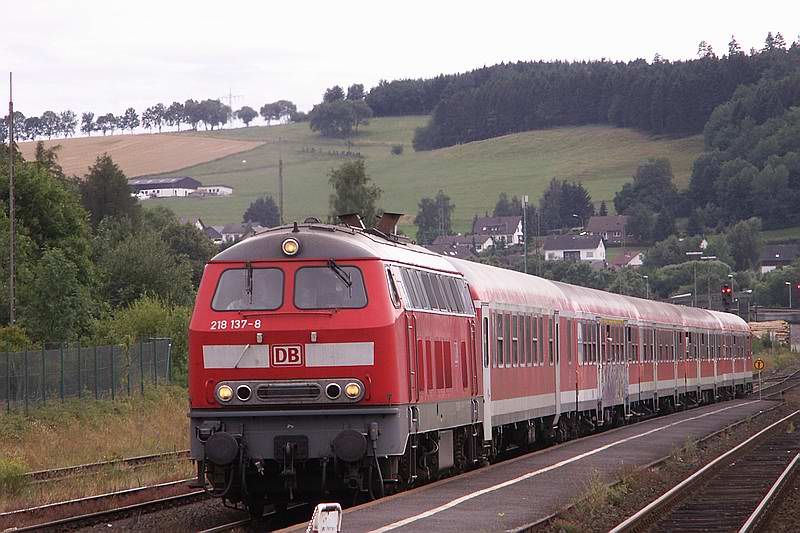 photographed by me